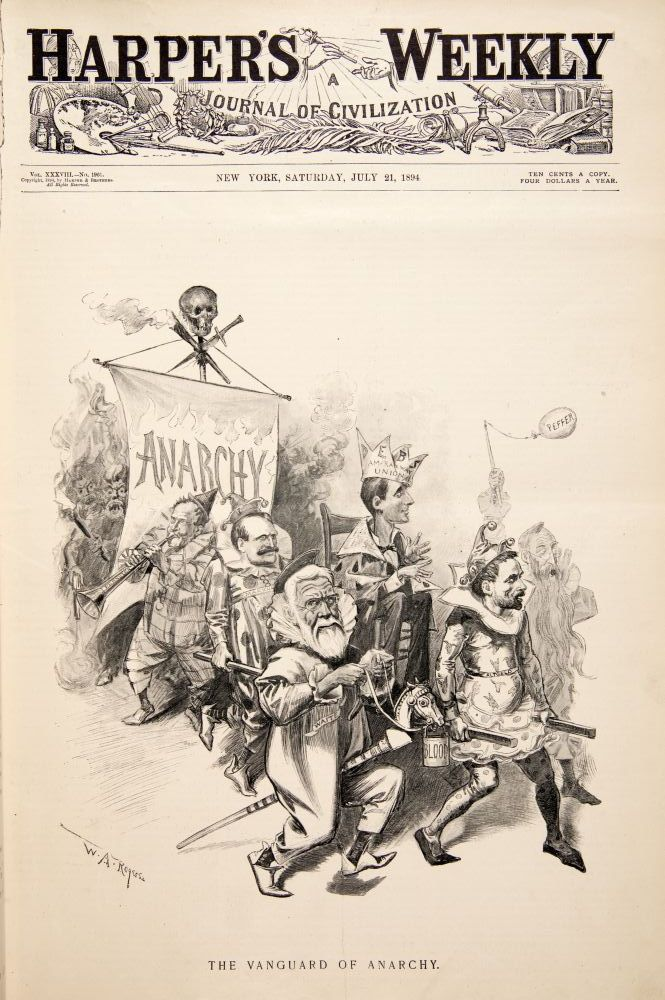 Political cartoon from the July 21, 1894 cover of Harper's Weekly. The political cartoon is labeled "The Vanguard of Anarchy" and depicts Eugene Debs the leader of the American Railway Union being carried on a throne among a procession which carries a standard that states anarchy. The political cartoon is commenting on the Pullman Strike of 1894 which Eugene Debs led.